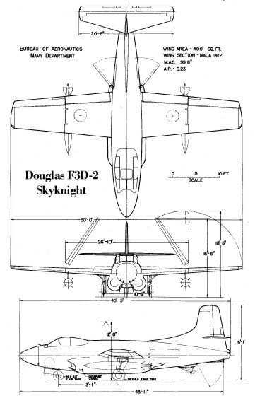 A 3-side-view of a Douglas F3D-2 Skyknight.